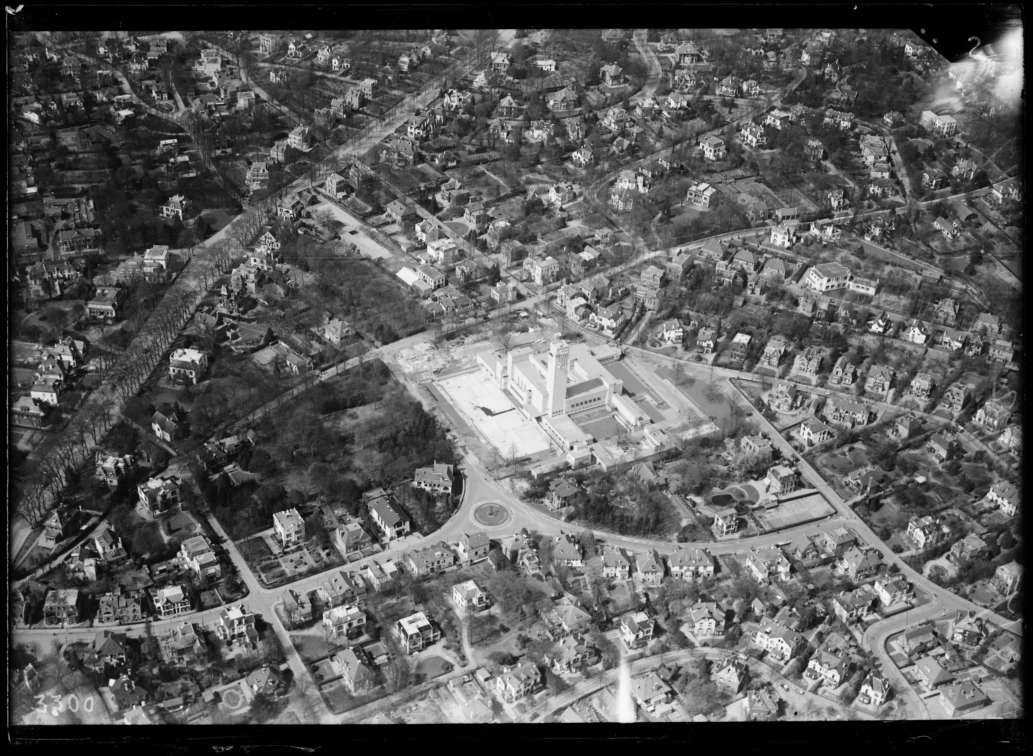 Aerial photograph of Hilversum, The Netherlands